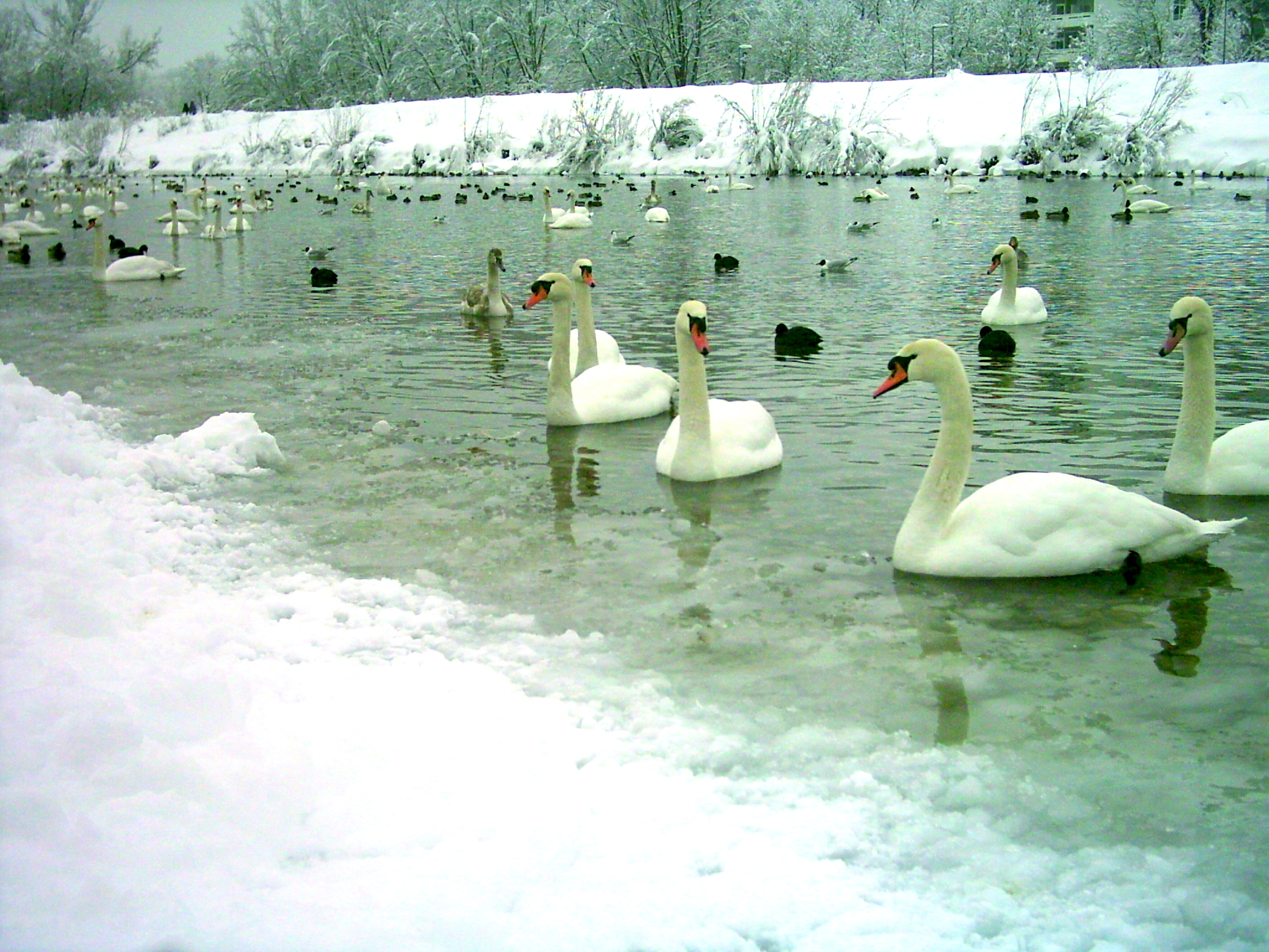 Winter impression of Flaucher area at river Isar in the southern part of München: Isar birds above the barrages..